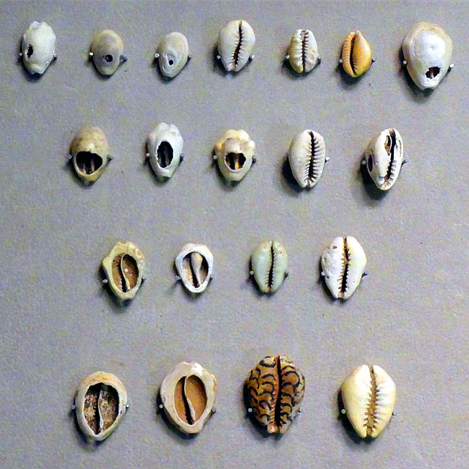 Shellfish Currencies. This photo was taken at the China Numismatic Museum by Baomi.